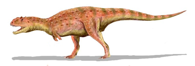 Majungasaurus crenatissimus, an abelisaur from the Late Cretaceous of Madagascar, pencil drawing